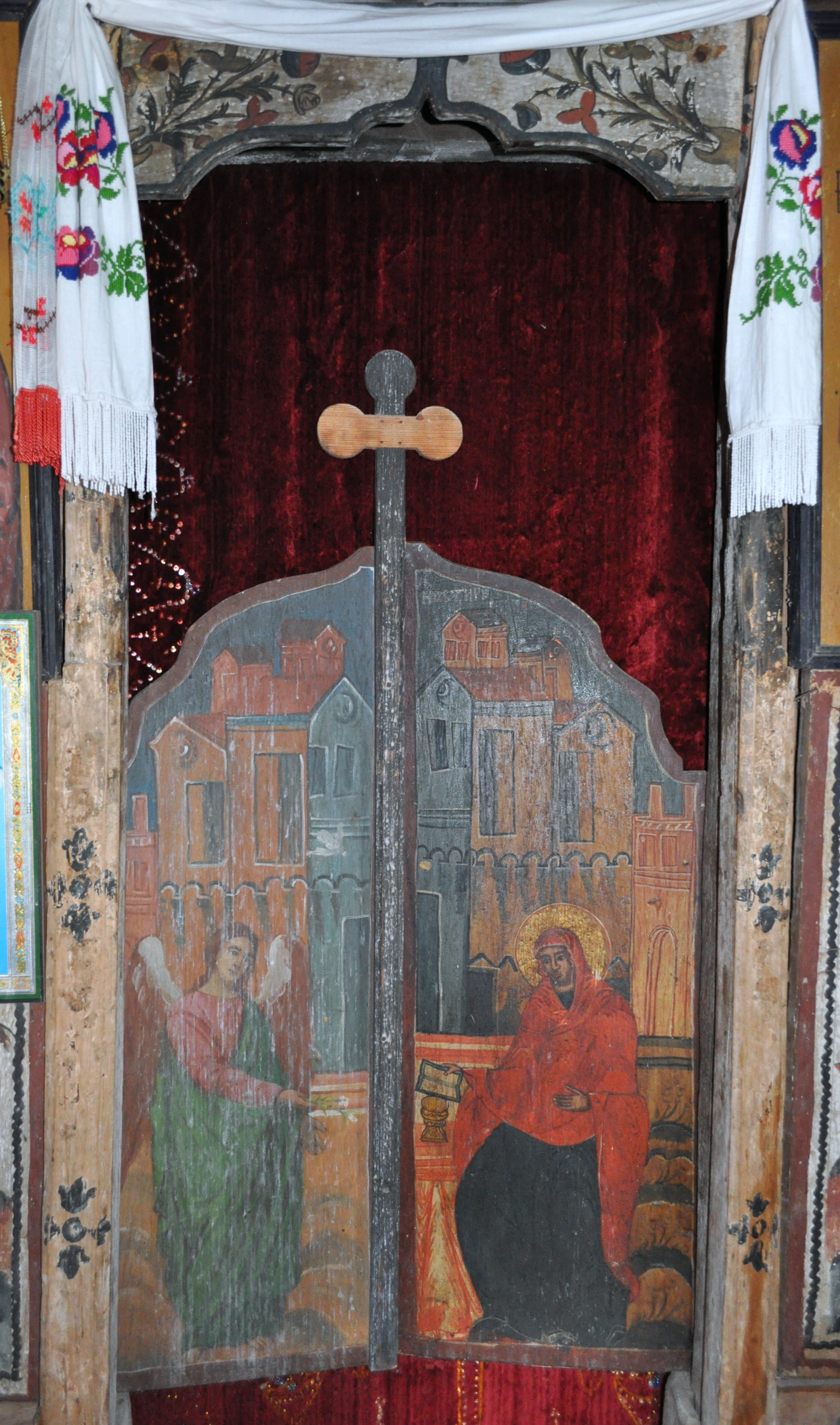 Saint George's wooden church in Voiteștii din Vale, Gorj county, Romania